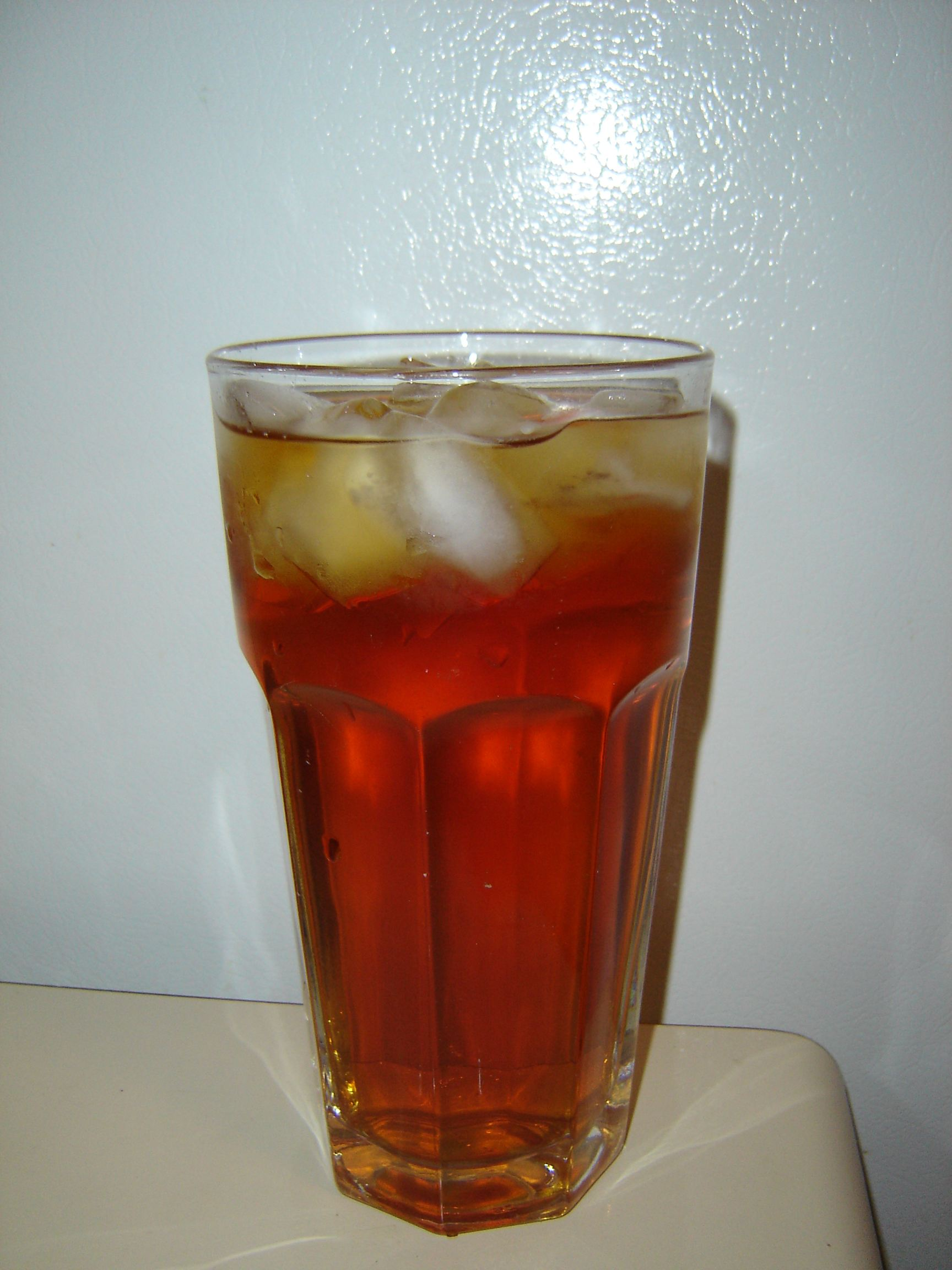 A glass of iced tea. I took this picture on March 20, 2005. The tea is Twinings Ceylon Orange Pekoe, with cane sugar and ice cubes.